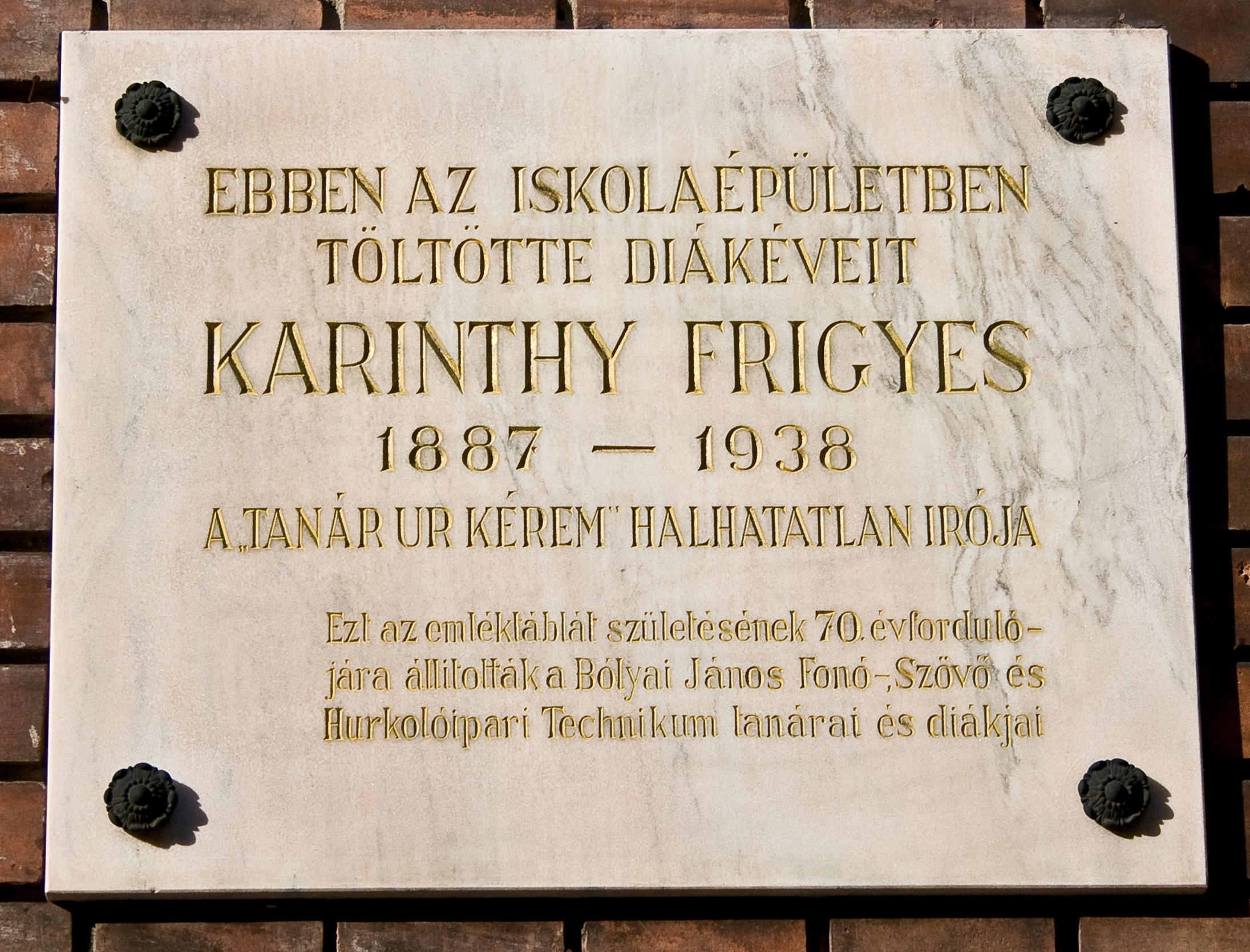 Frigyes Karinthy commemorative plaque in Budapest District V, Markó Street No 18-20